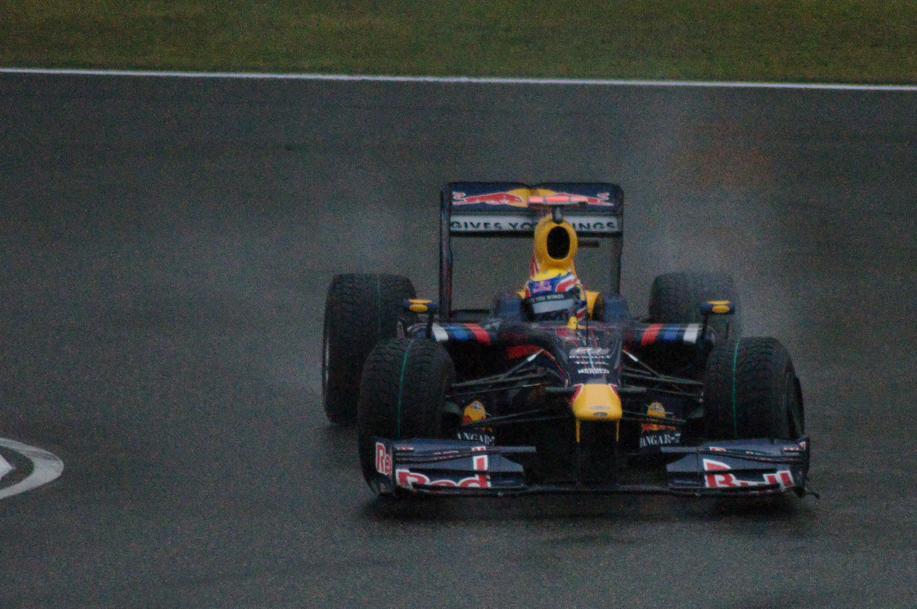 Mark Webber driving for Red Bull Racing at the 2009 Chinese Grand Prix.